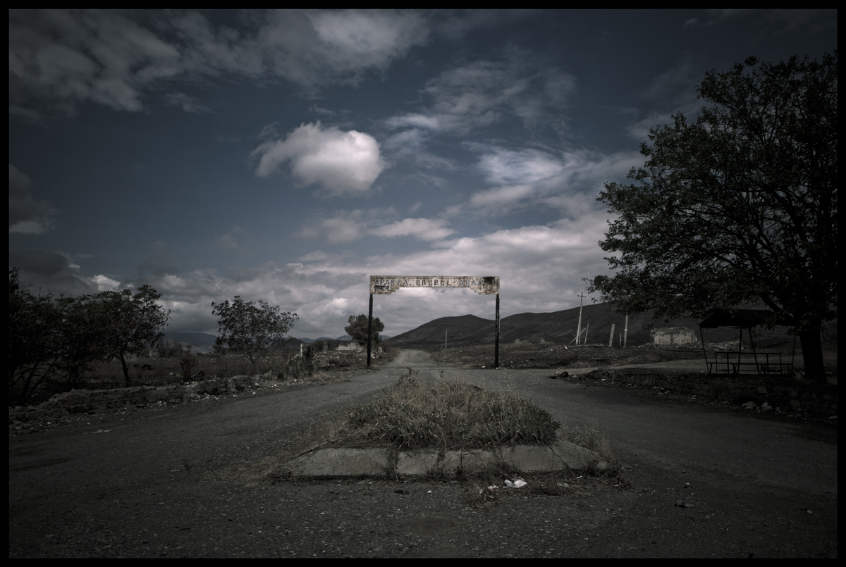 Gate to an almost abandoned village Arakel